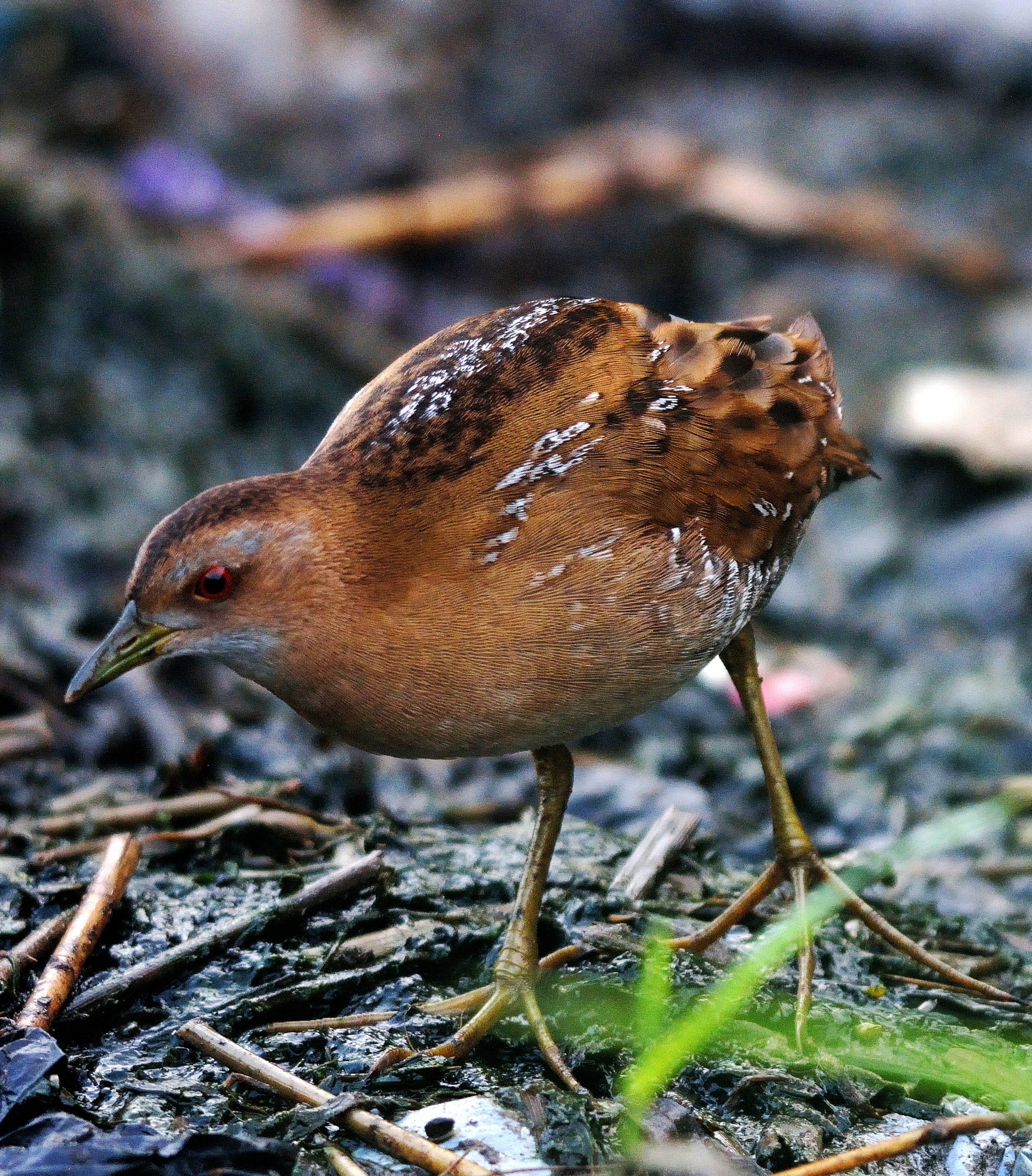 Baillon's Crake Porzana pusilla. Photo taken by Dr. Raju Kasambe near Dombivli, dist. Thane, Maharashtra, India